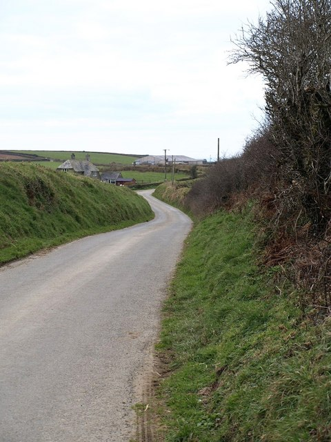 Lane to Treweens Farm Seen from a five-way hilltop junction on the B3266. This lane progresses along a ridge south of Boscastle, towards Trevalga. Treweens farm is on the next corner; the farm buildings visible beyond, with the sea on their right, are in SX0989.